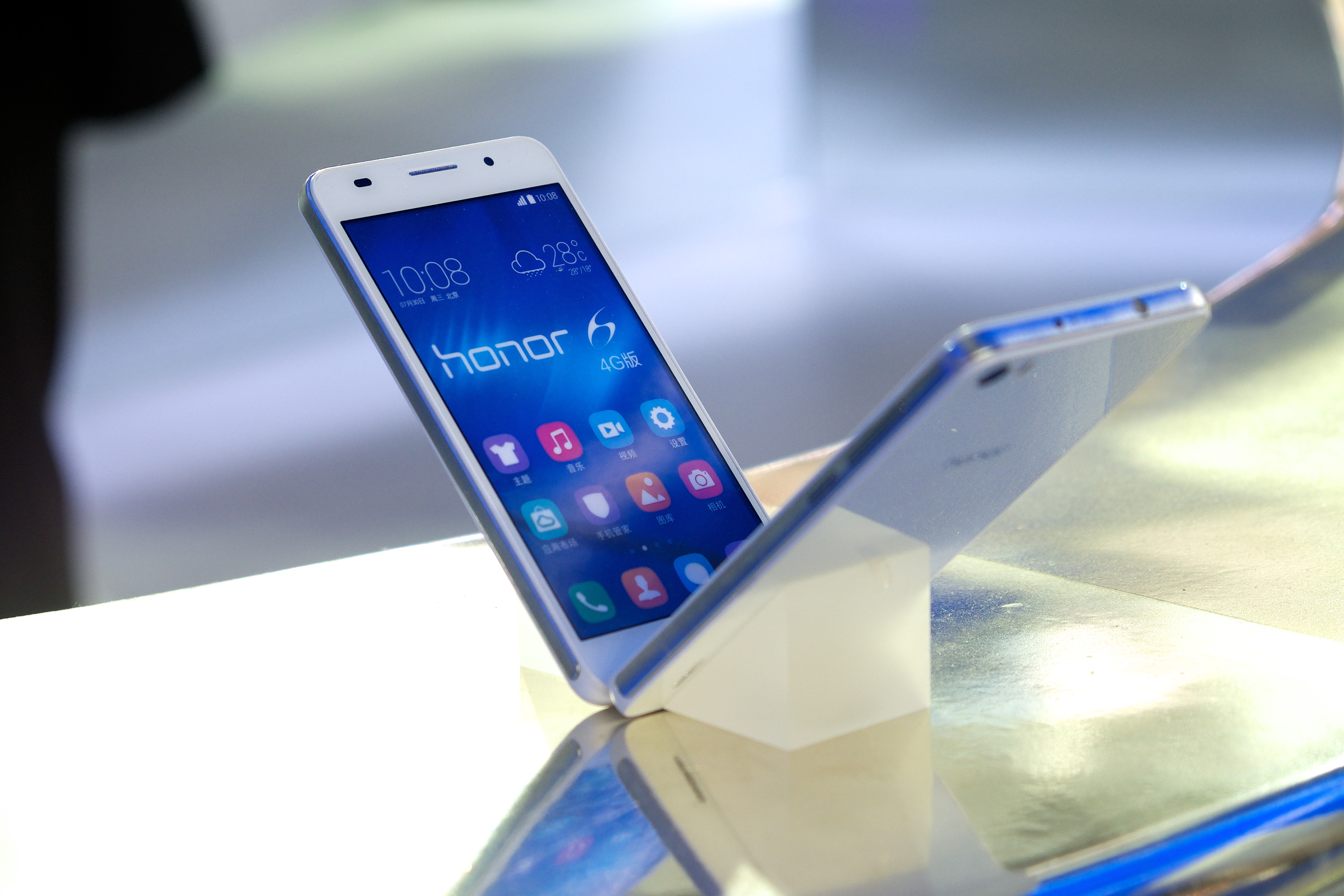 Huawei Honor 6 at Mobile World Congress 2015 Barcelona